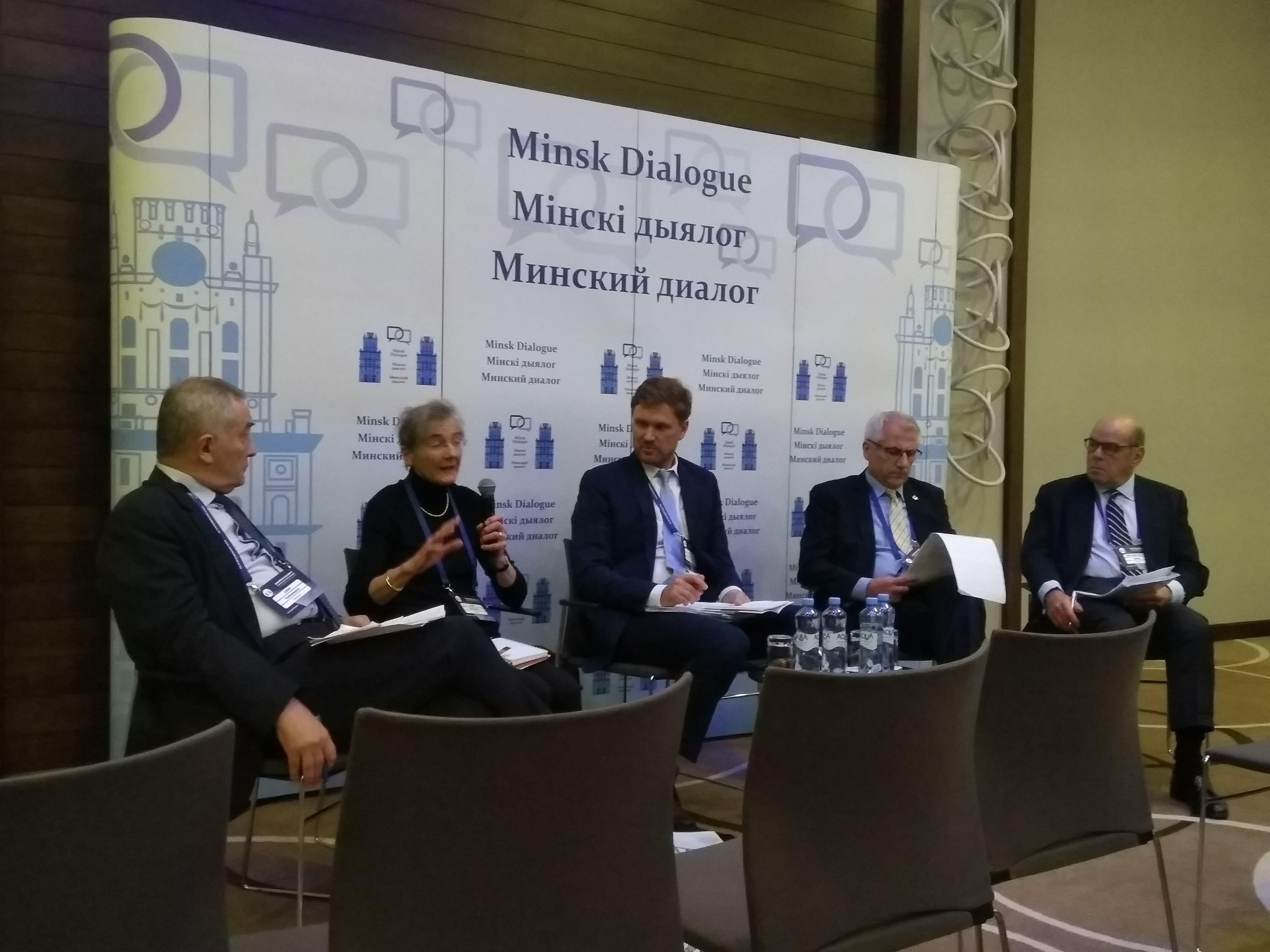 Lazăr Comănescu, Judy Dempsey, Florent Marciacq, Vygaydas Ušackas, Paul Révay at the Minsk Dialogue 2019